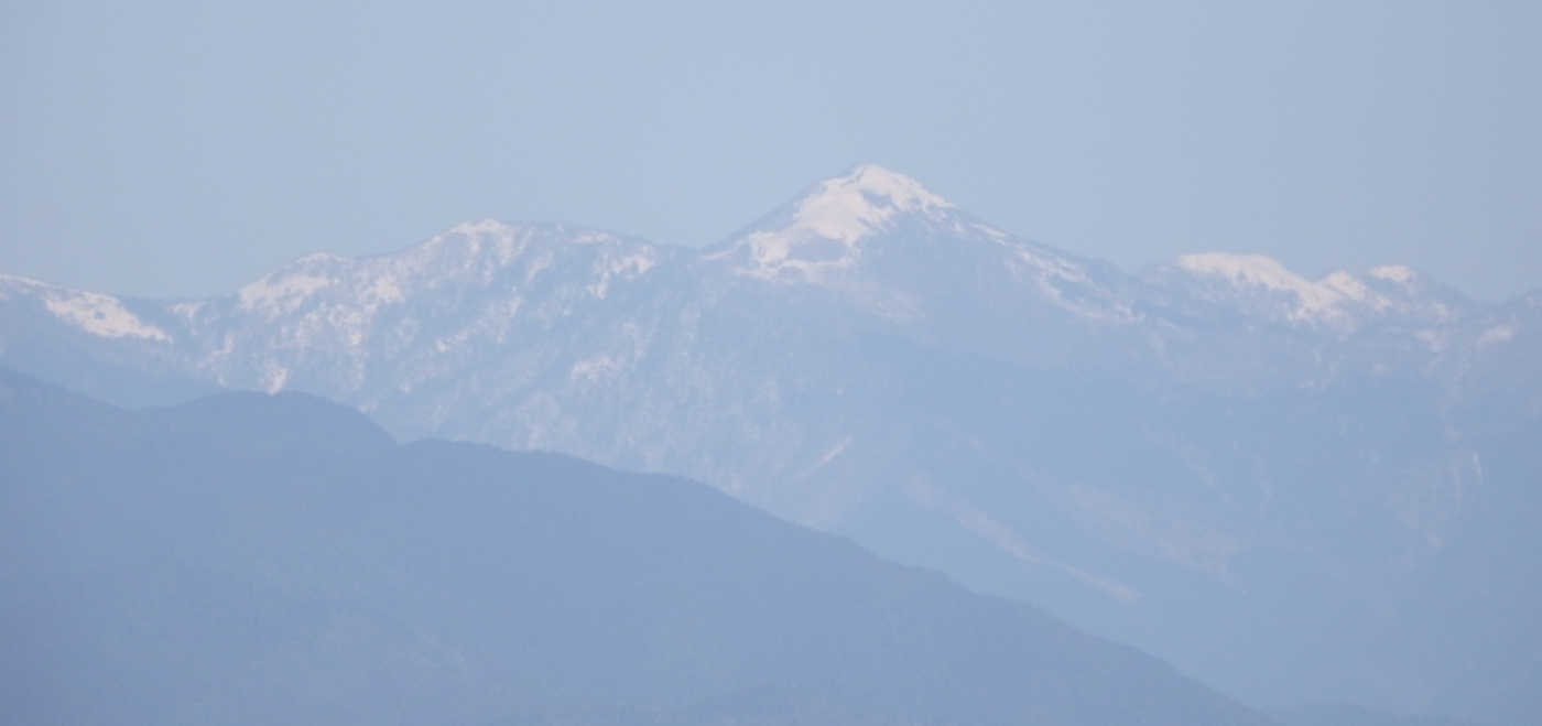 Mount Shiraga as seen from Zenjibu-ji temple